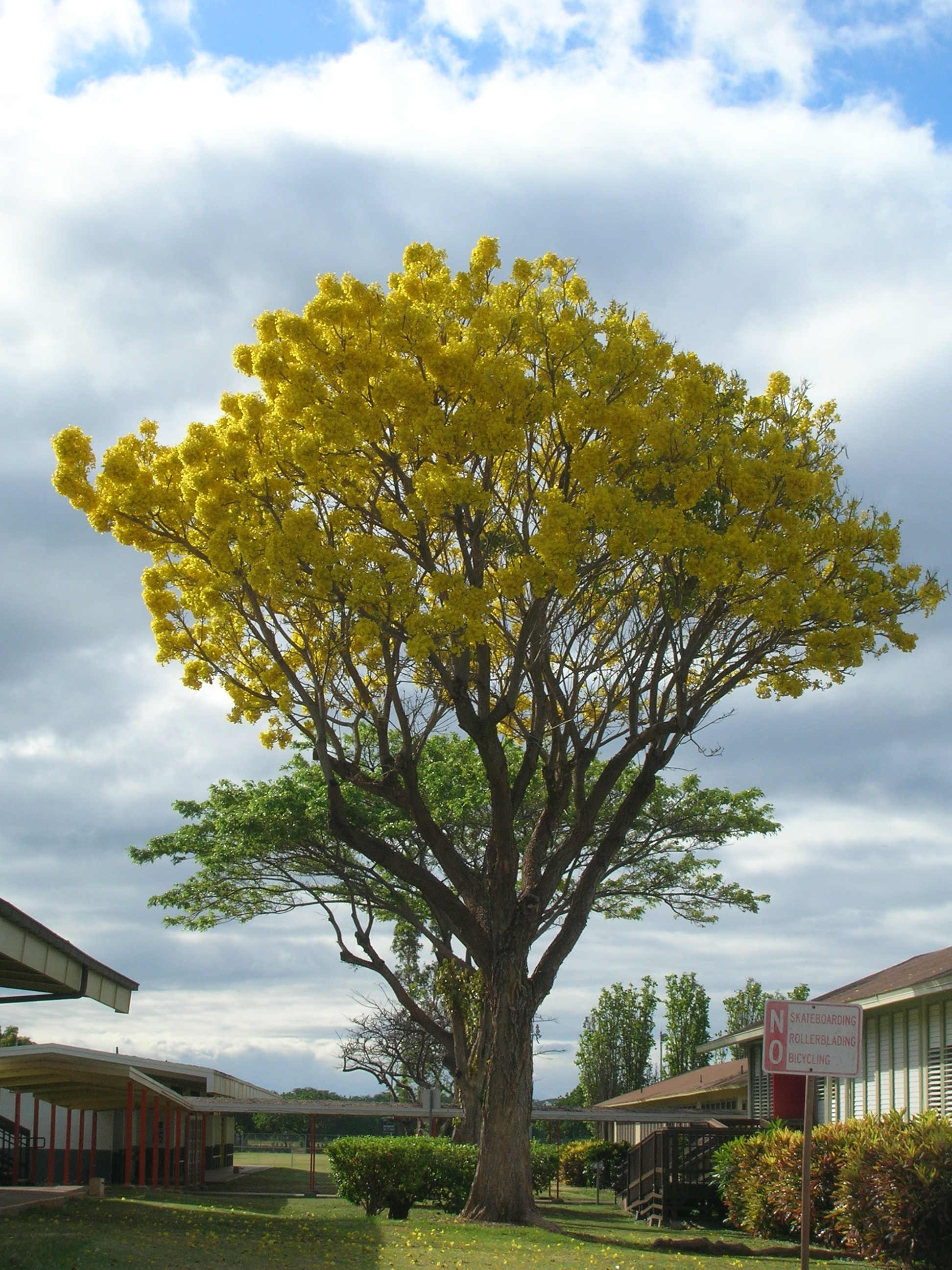 Tabebuia donnell-smithii (habit). Location: Molokai, Kaunakakai